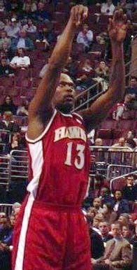 This file was derived from Glenn Robinson 2003.jpg